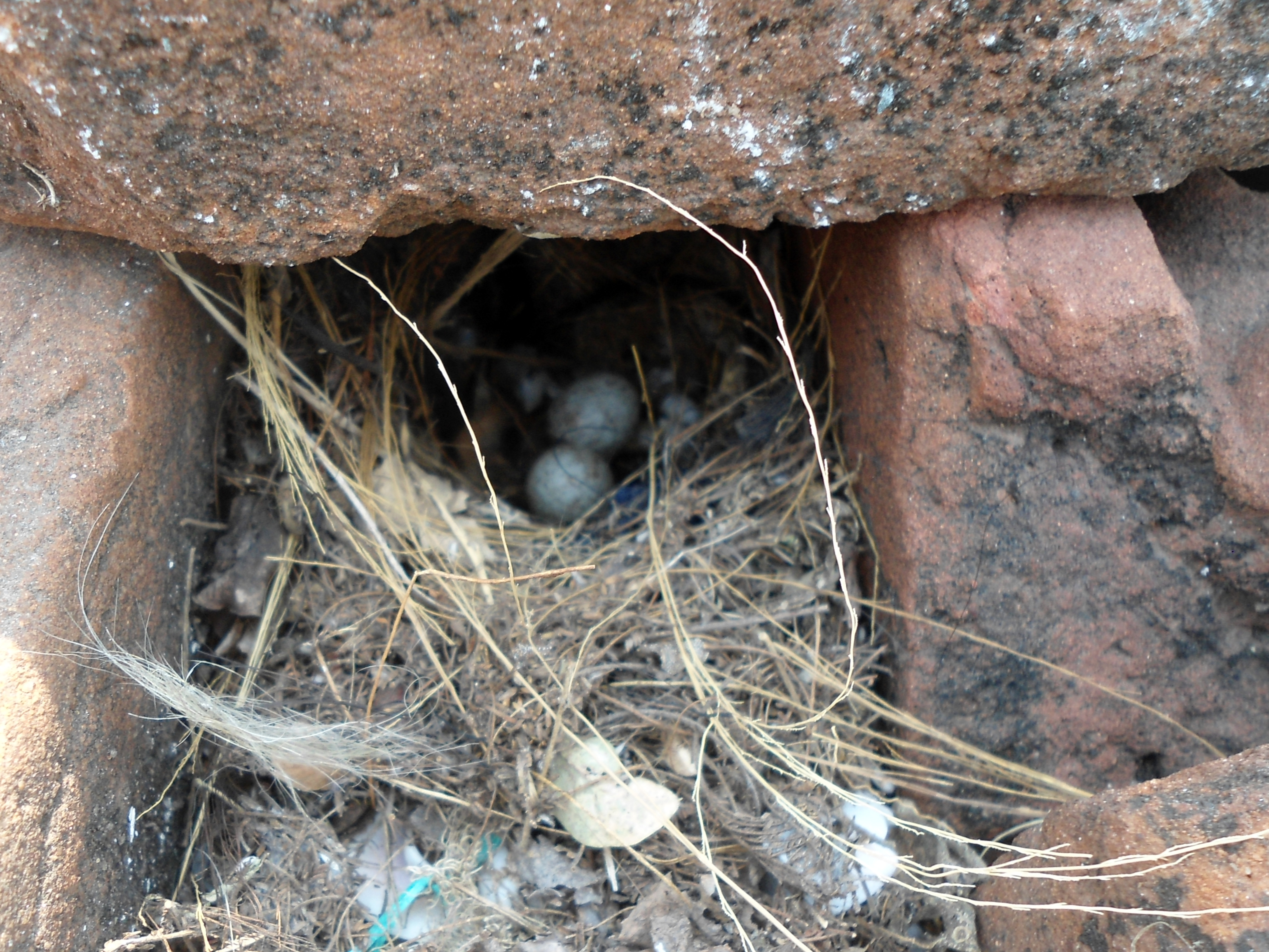 Indian Robin bird (Saxicoloides fulicatus) Nest and Eggs under bricks at Madhurawada, Visakhapatnam